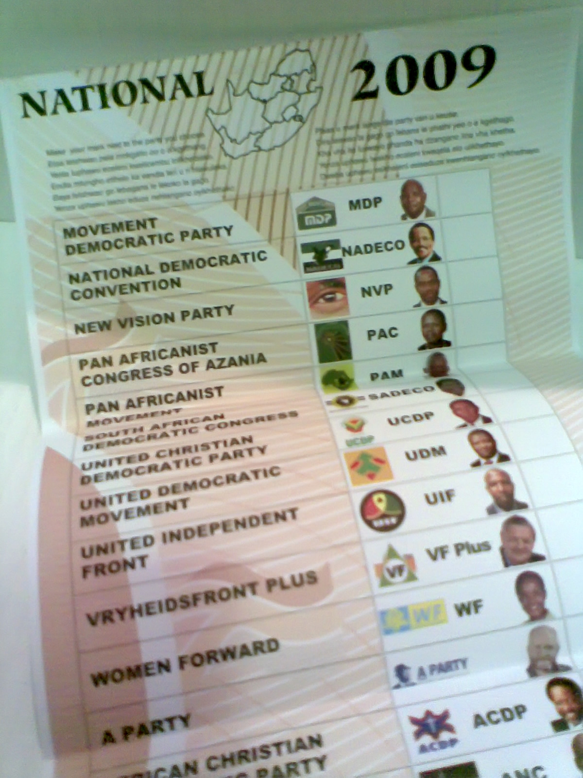 Ballot paper for the National Assembly vote in the South African elections of 22 April 2009.